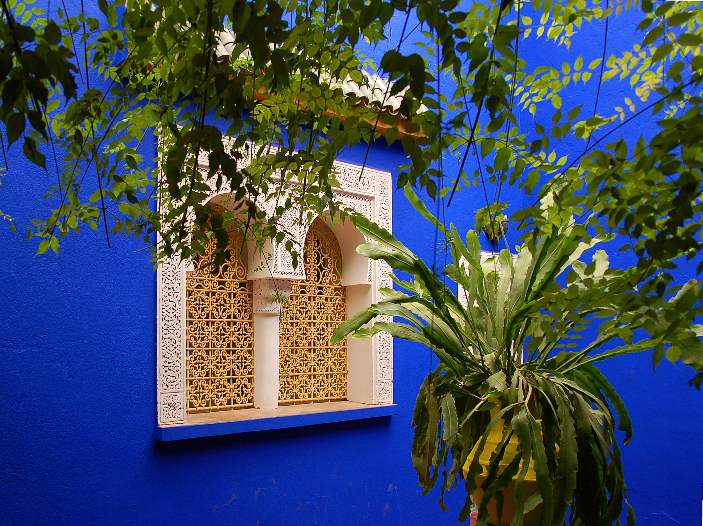 Maroc Marrakech city Majorelle garden